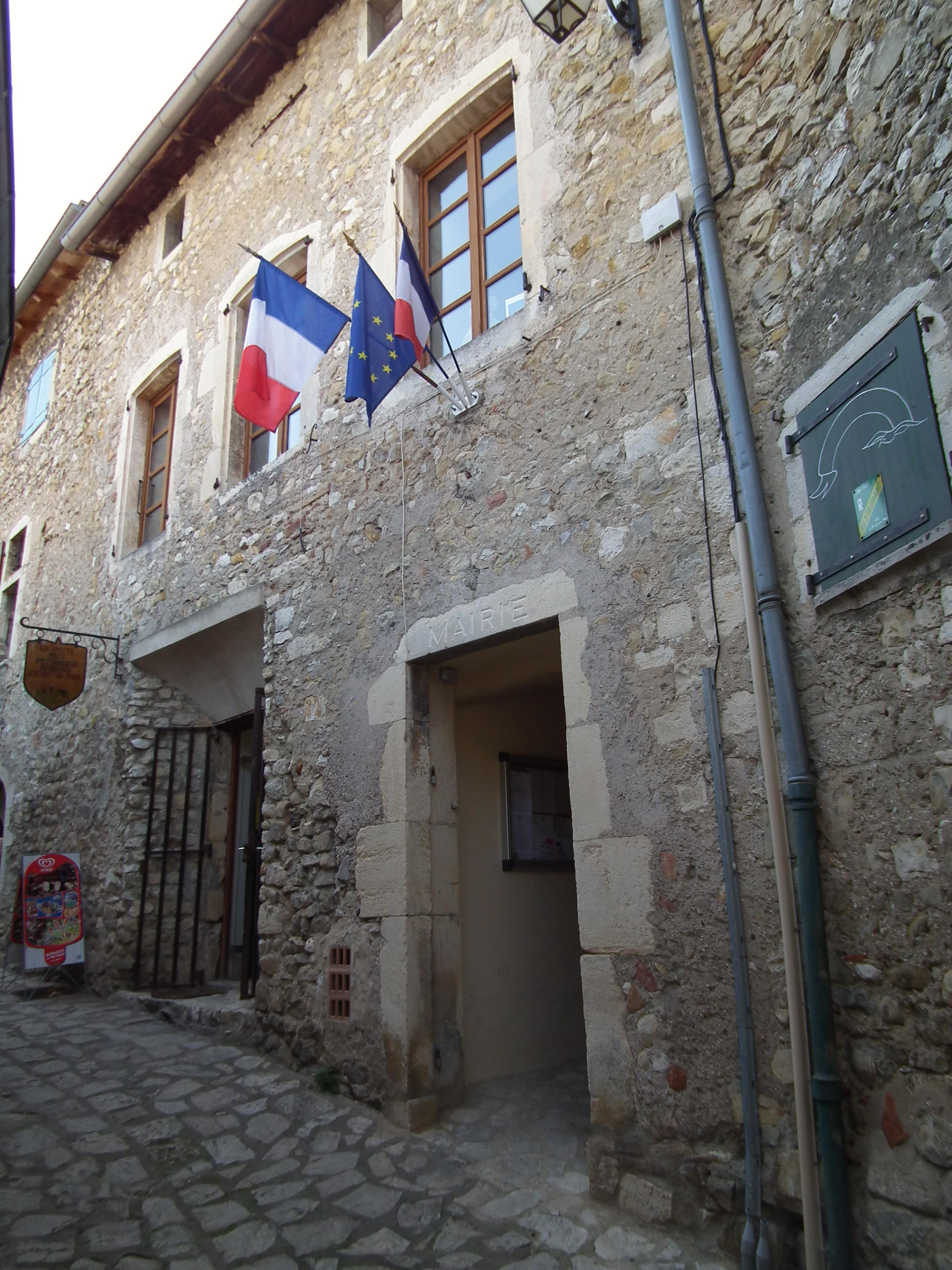 Town hall of Mirmande - Drôme - France